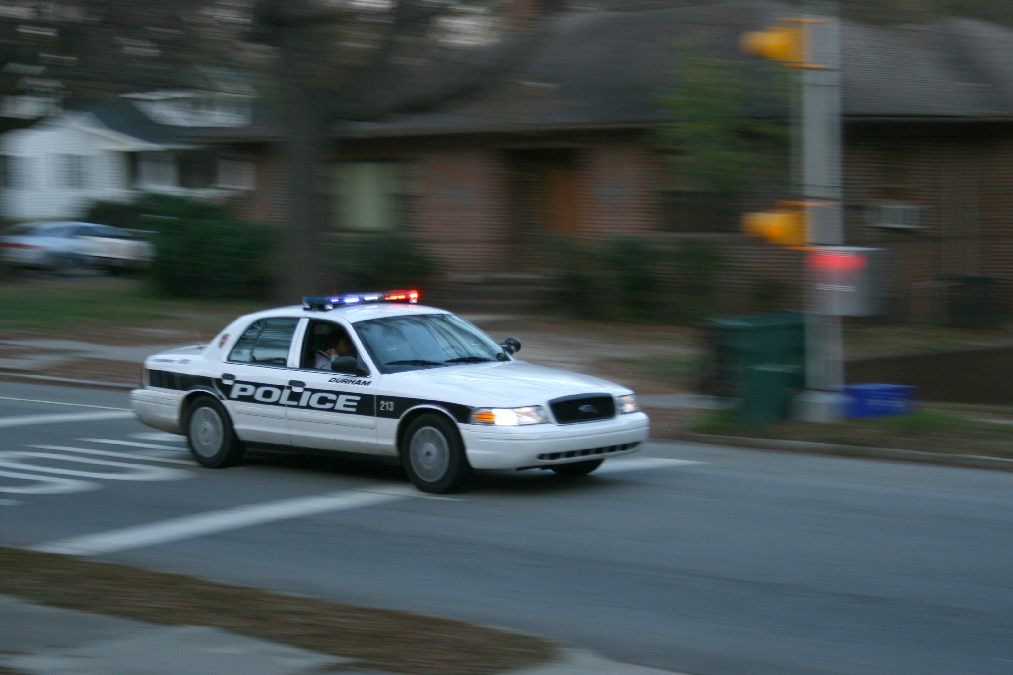 Durham Police Department cruiser 213 rushing past the 900 block of North Gregson Street in Durham, North Carolina.